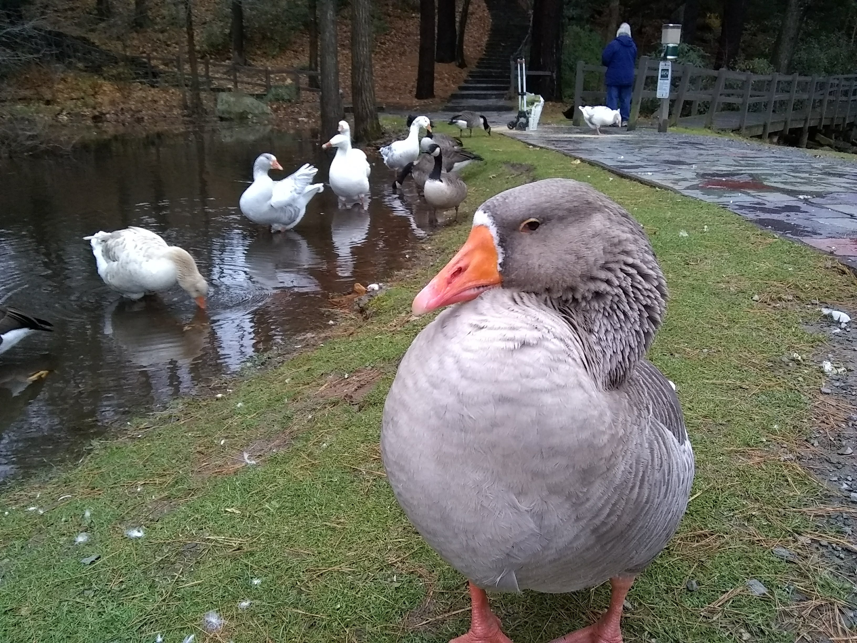 This is the greylag goose at stanley park who recently passed away as of (2019)